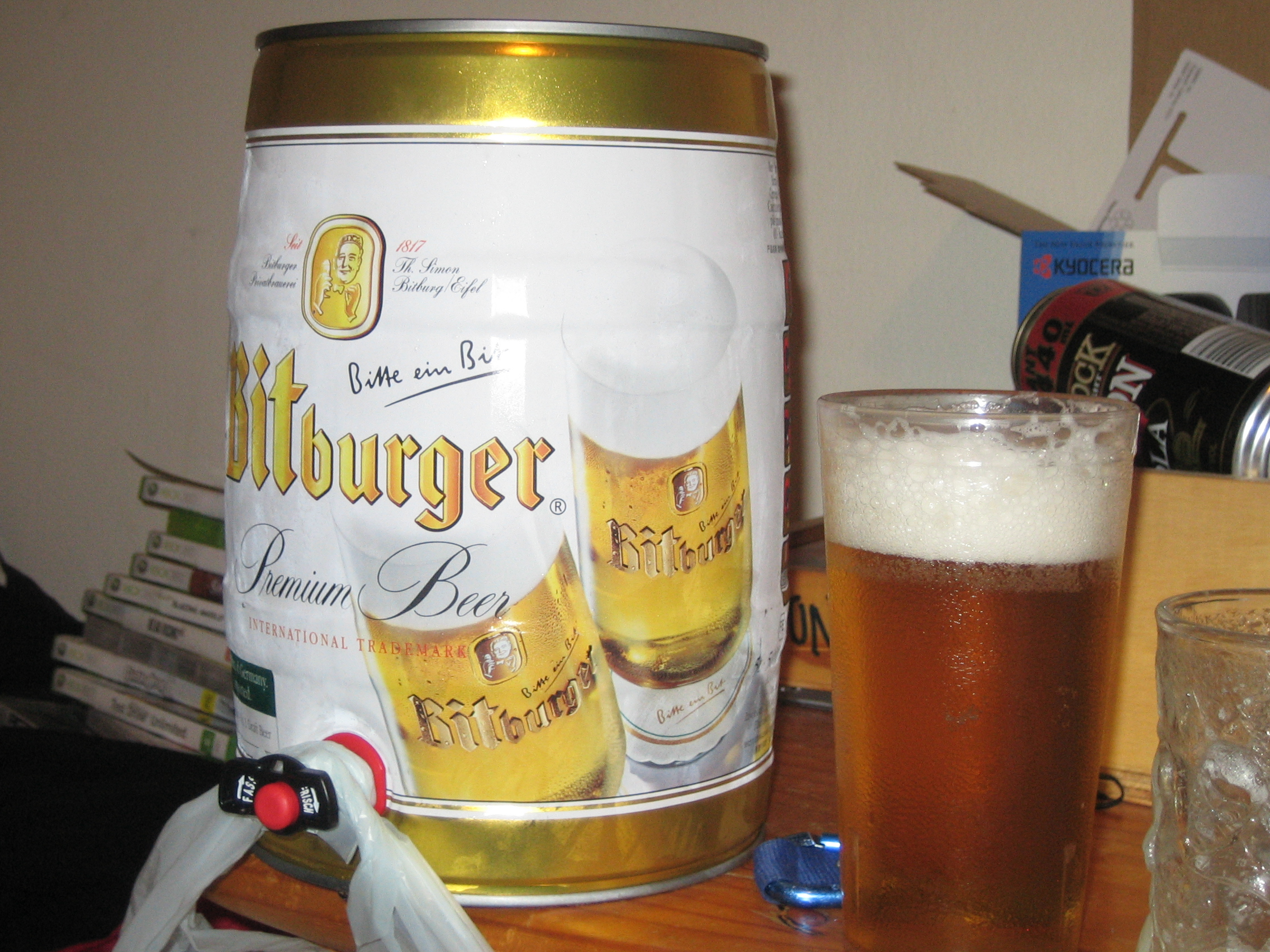 A 5 litre mini keg of Bitburger Premium Beer (a pale lager) purchased in Sydney, Australia.